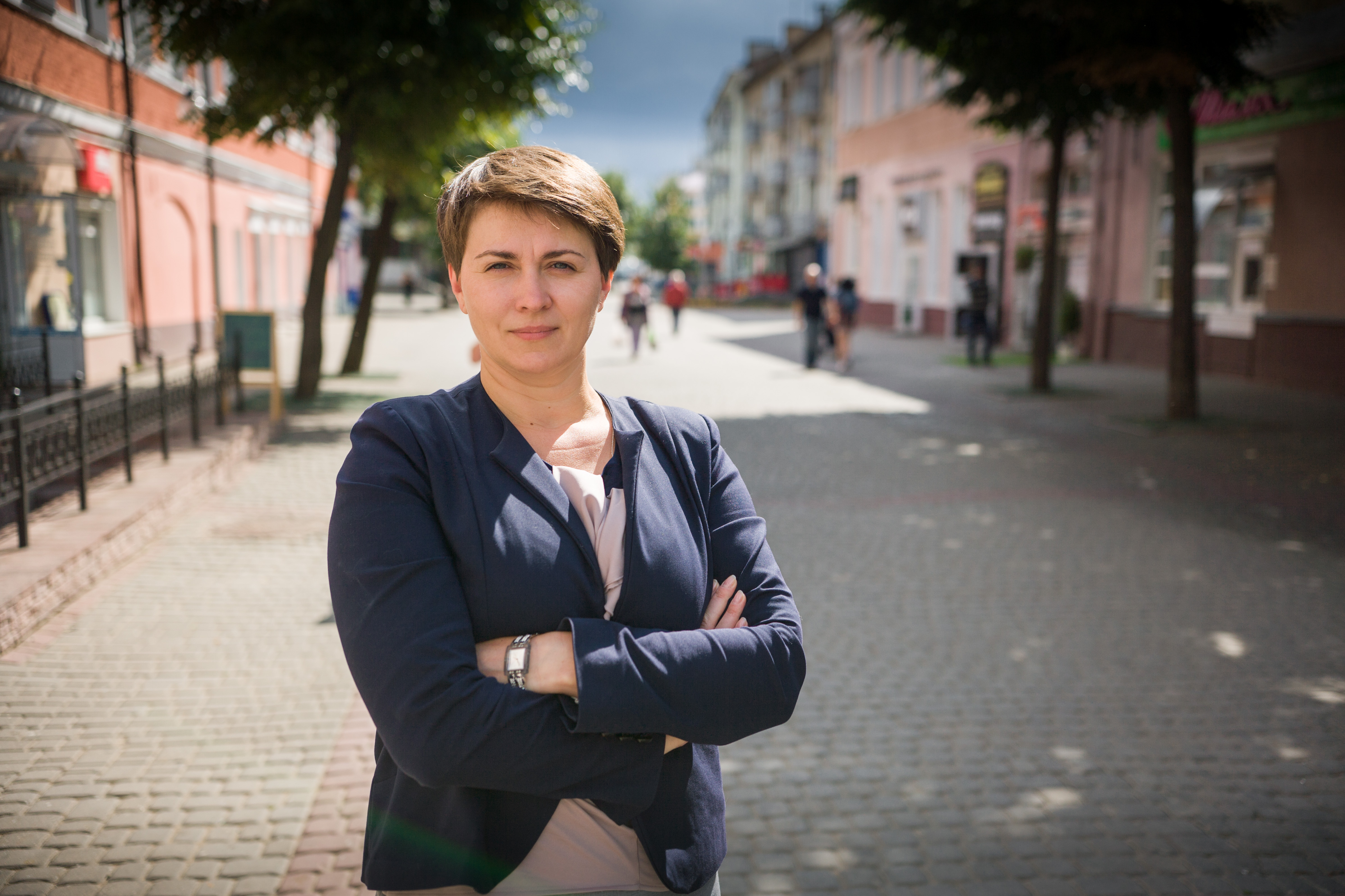 portrait of Tacciana Karatkievič, belarusian presidental candidate in 2015 elections, Mahilioŭ, Belarus